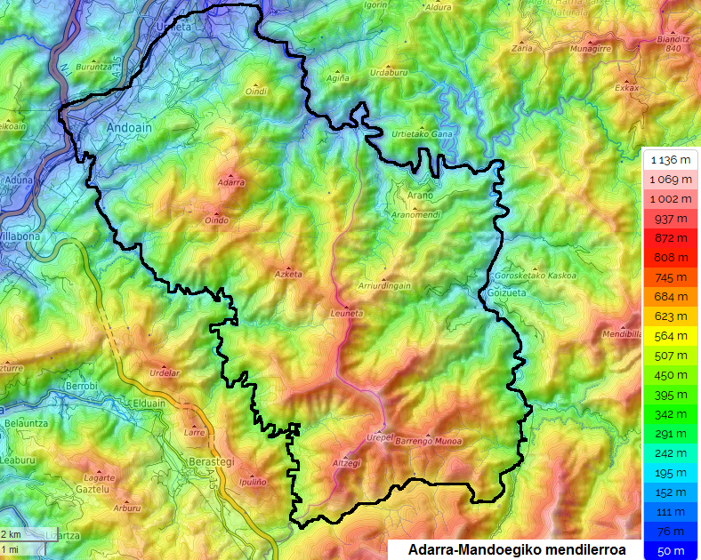 Topographic map showing the Adarra-Mandoegi Range.